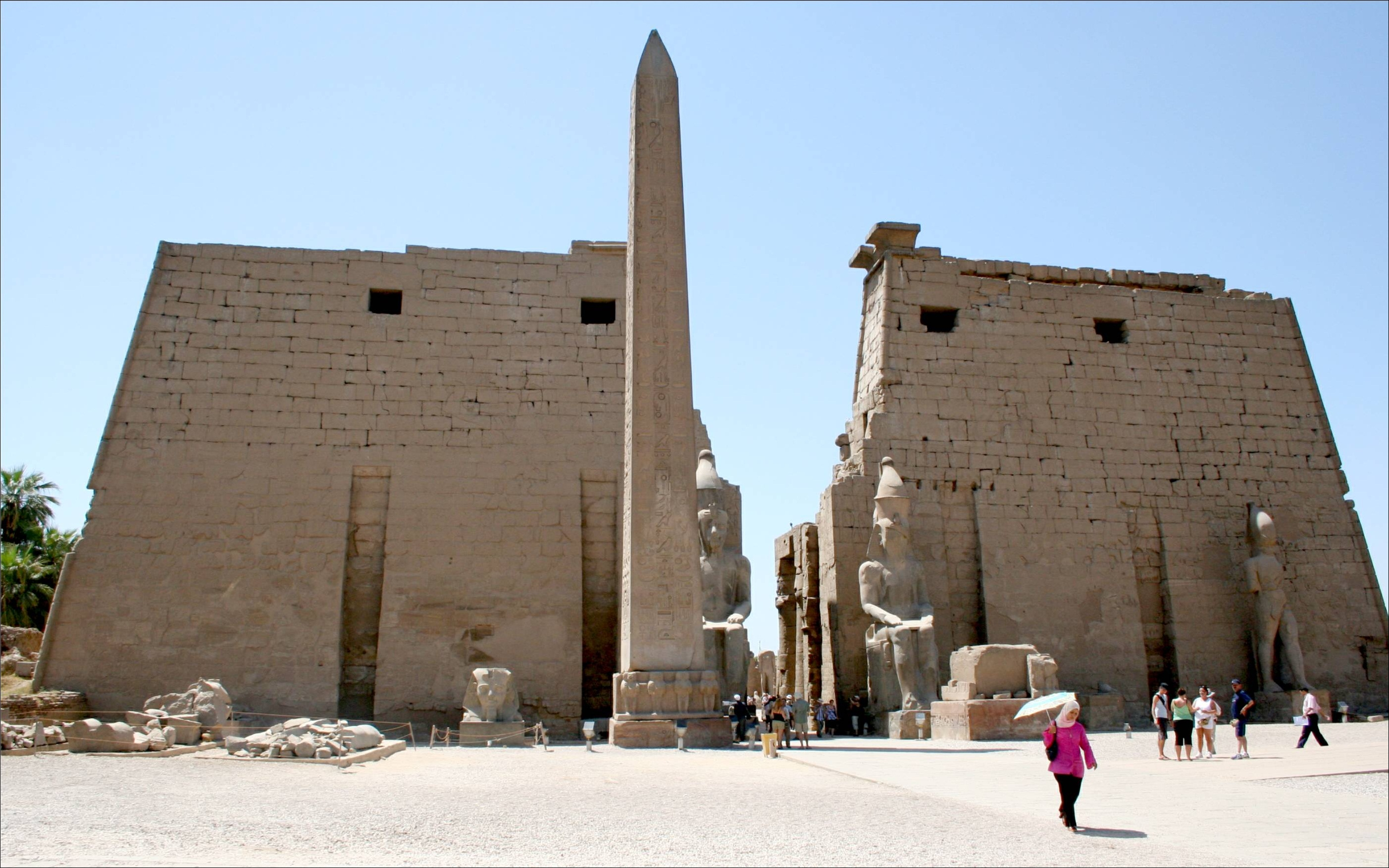 Luxor - obelisk and pylon; the twin obelisk was moved to Paris - the Place de la Concorde